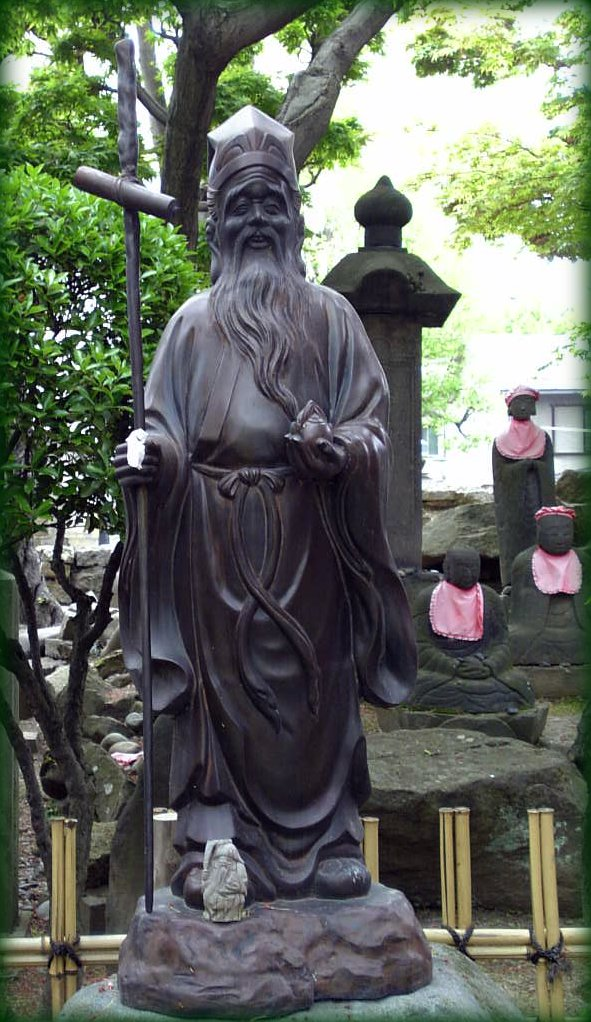 One of the seven gods of good fortune. That's a small image of him by his feet.